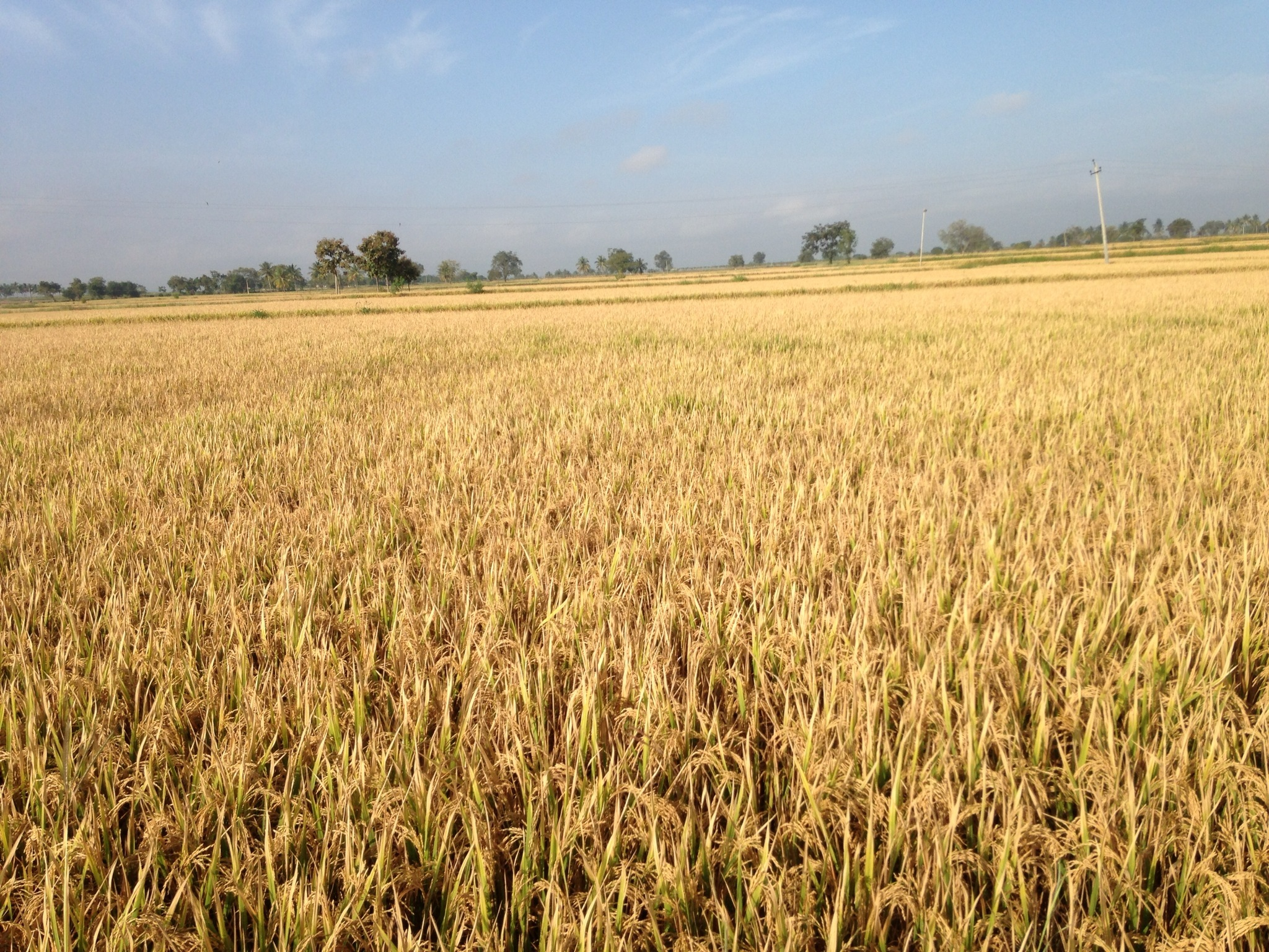 Paddy crop is ready to harvest